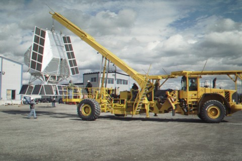 The BLAST (Balloon-borne Large Aperture Sub-millimeter Telescope) hanging from the launch vehicle Hercules at Esrange, outside of Kiruna Sweden. Taken on 2005-06-11.